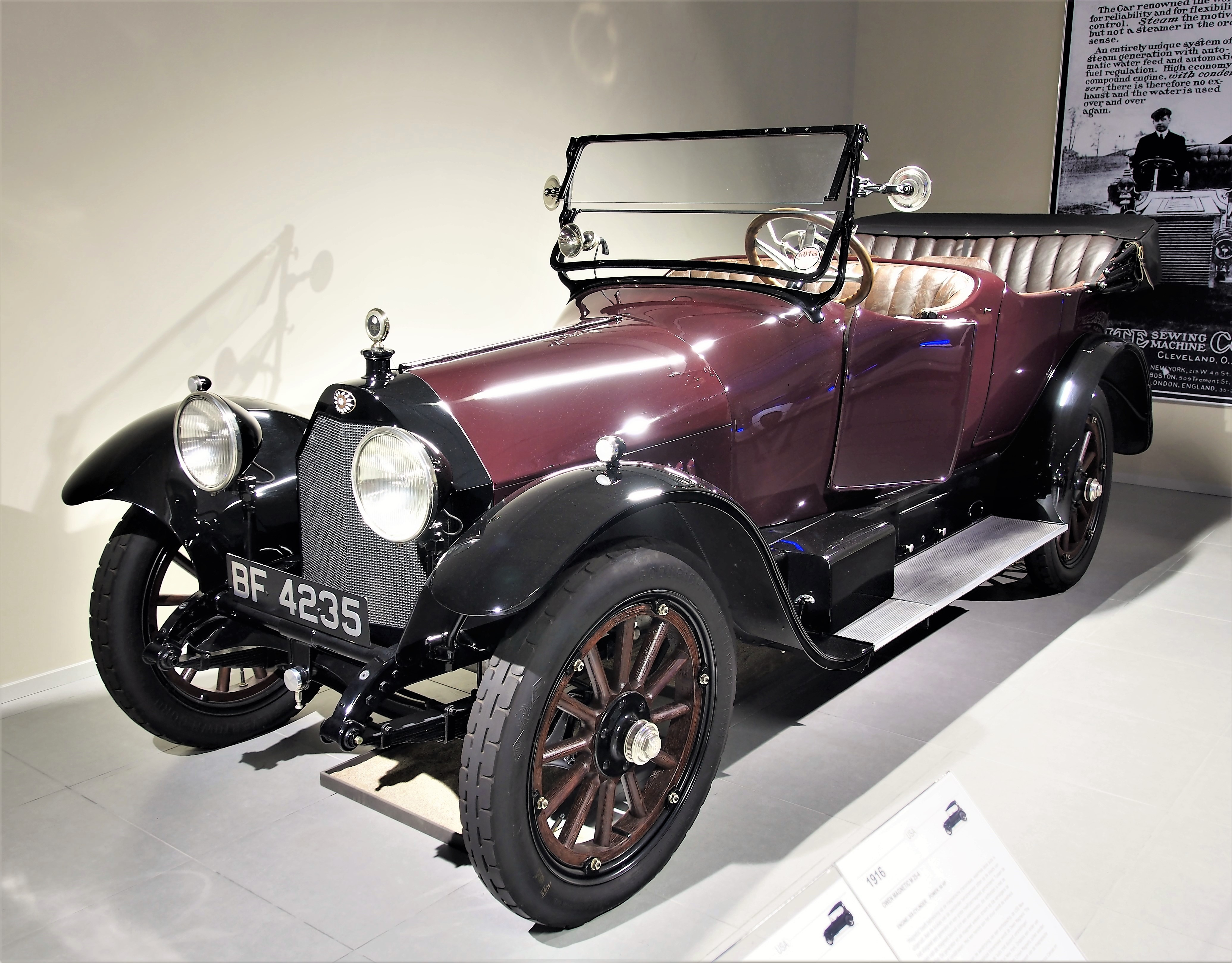 1916 Owen Magnetic M 25-4 photographed at the Louwman museum.